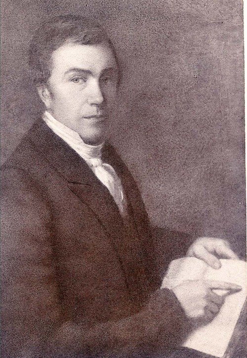 A photograph of a painting of Isaac McCoy